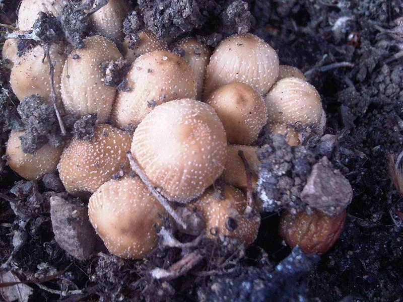 Coprinellus domesticus s. l. (Coprinus domesticus s. l.) in Putney Heath Common, England.